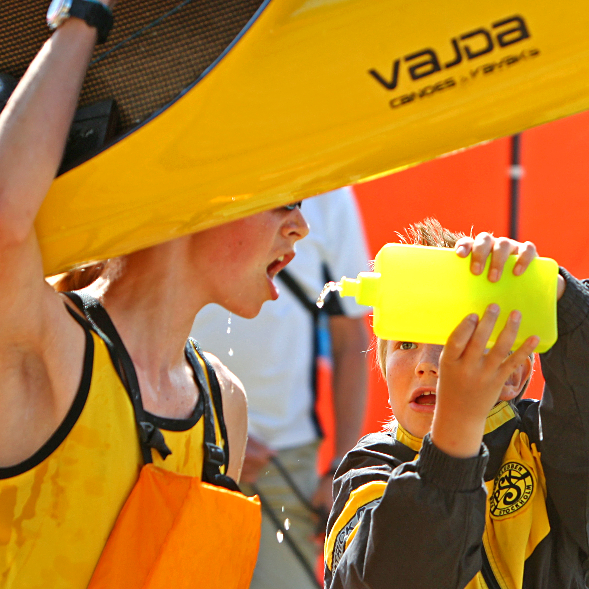 Canoe transport on shoulder and refueling ... with a little help at the Canoe Championship 2009 in Sweden